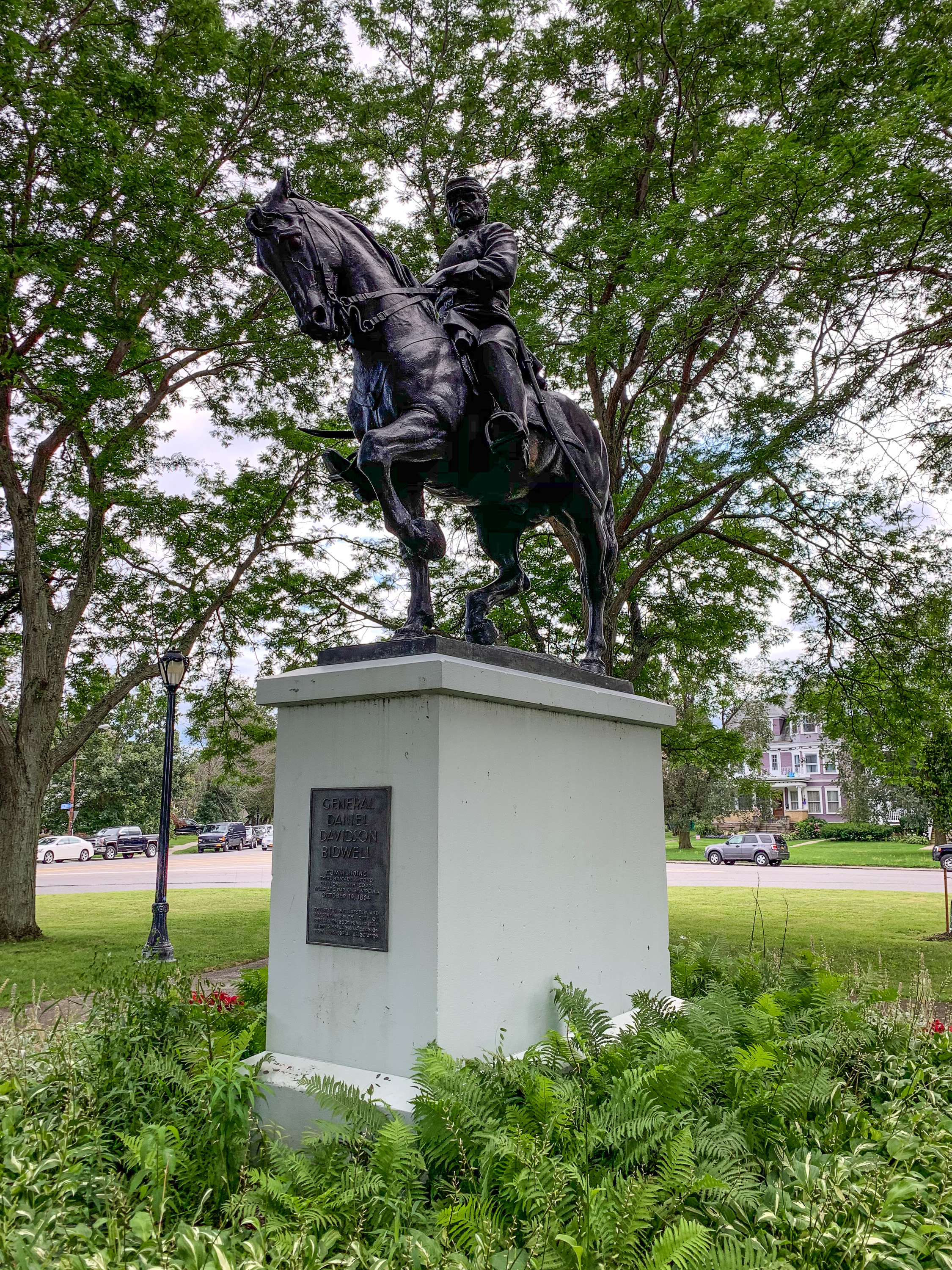 Statue of General Daniel Davidson Bidwell, Colonial Circle, Buffalo, New York. Sahl Swarz, 1952.